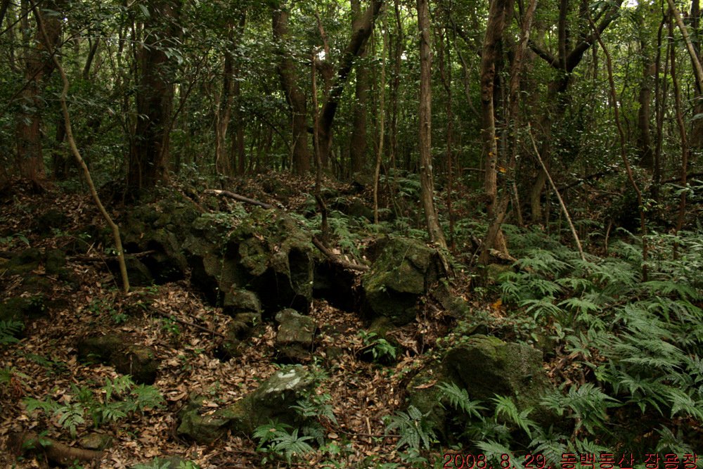 The Gotjawal Forest in Jeju Island, South Korea. Because Gotjawal Forest is formed on rocky areas, as this picture shows, rainwater penetrates into groundwater aquifer directly, making the Gotjawal forest the most important ecology for water resources in Jeju-do, a volcanic island.